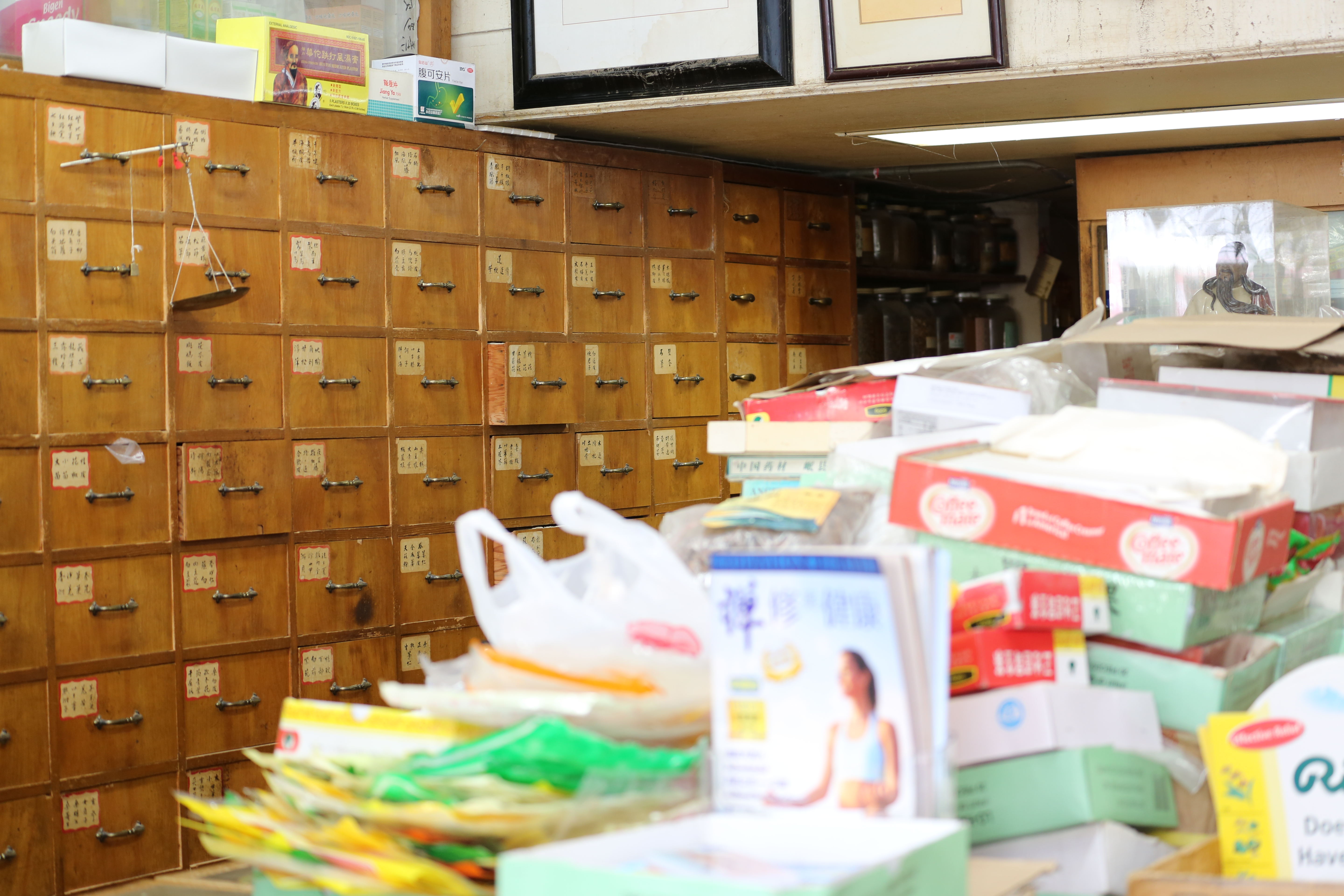 Old chinese pharmacy in Chinatown, San Francisco